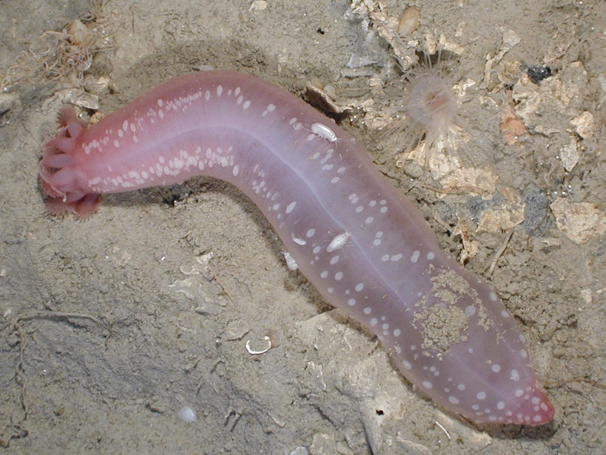 Chiridota heheva